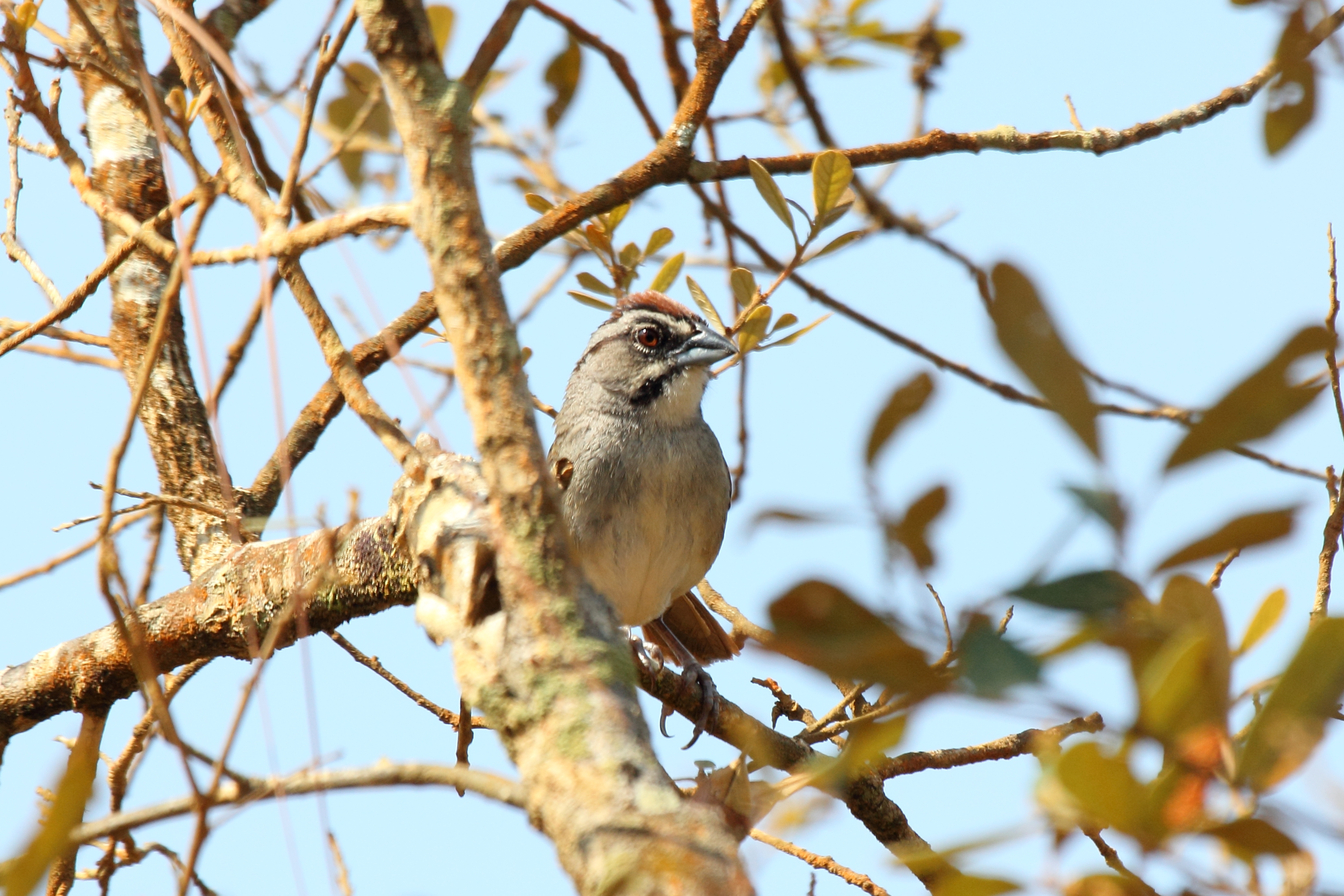 Rusty Sparrow (Aimophila rufescens)